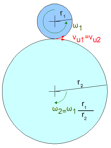 friction gear